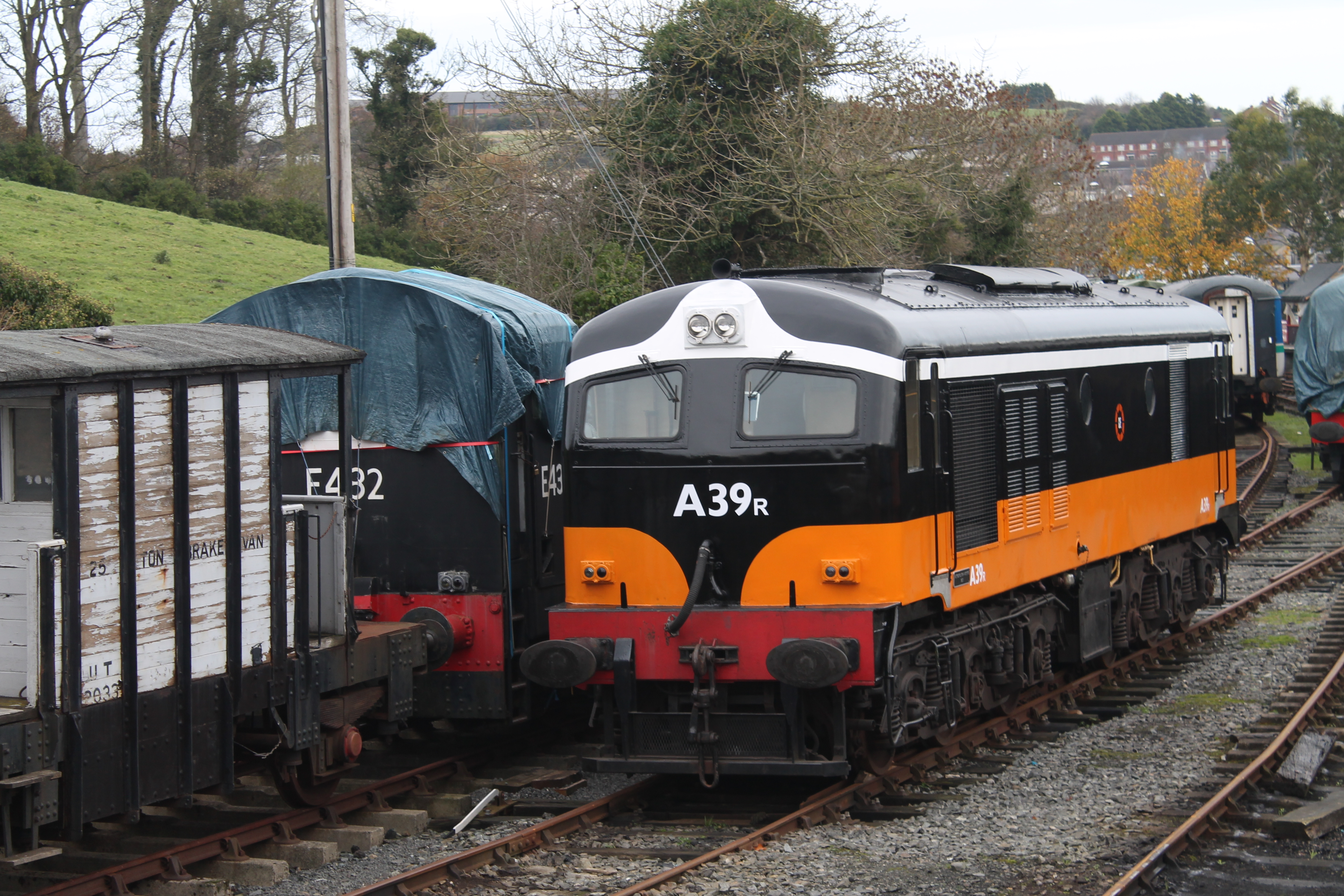 ITG-Owned A Class, A39r at Downpatrick in its new livery.